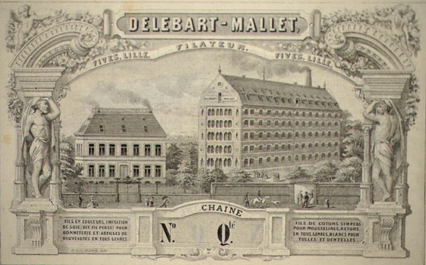 Delebart-Mallet, filature coton Lille - Fivesdimensions : 50 x 65 cm